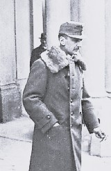 Ottokar Czernin at Blauer Hof (Laxenburg), October 1918